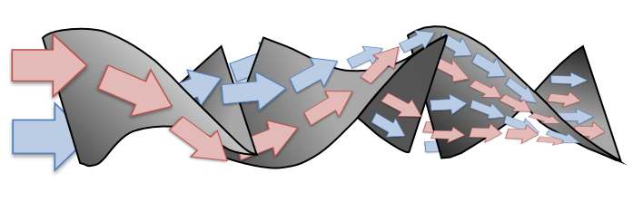 Depiction of flow division by a static mixer